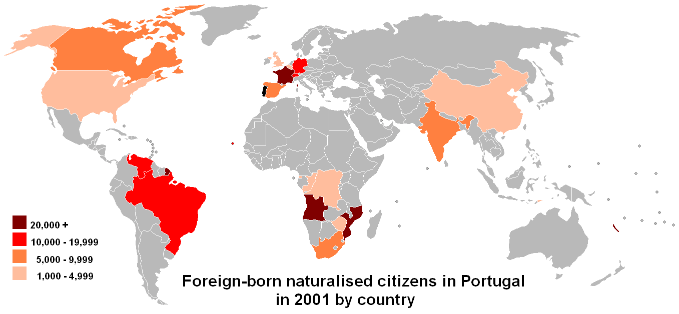 Foreign born naturalised Portuguese citizens in Portugal in 2001 by country